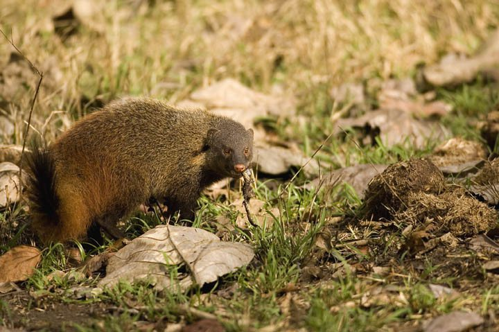 Stripe-necked Mongoose at Kabini, Nagerhole.